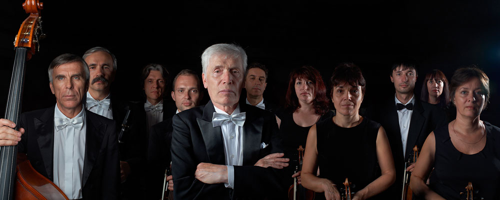 Volgograd Symphony Orchestra.